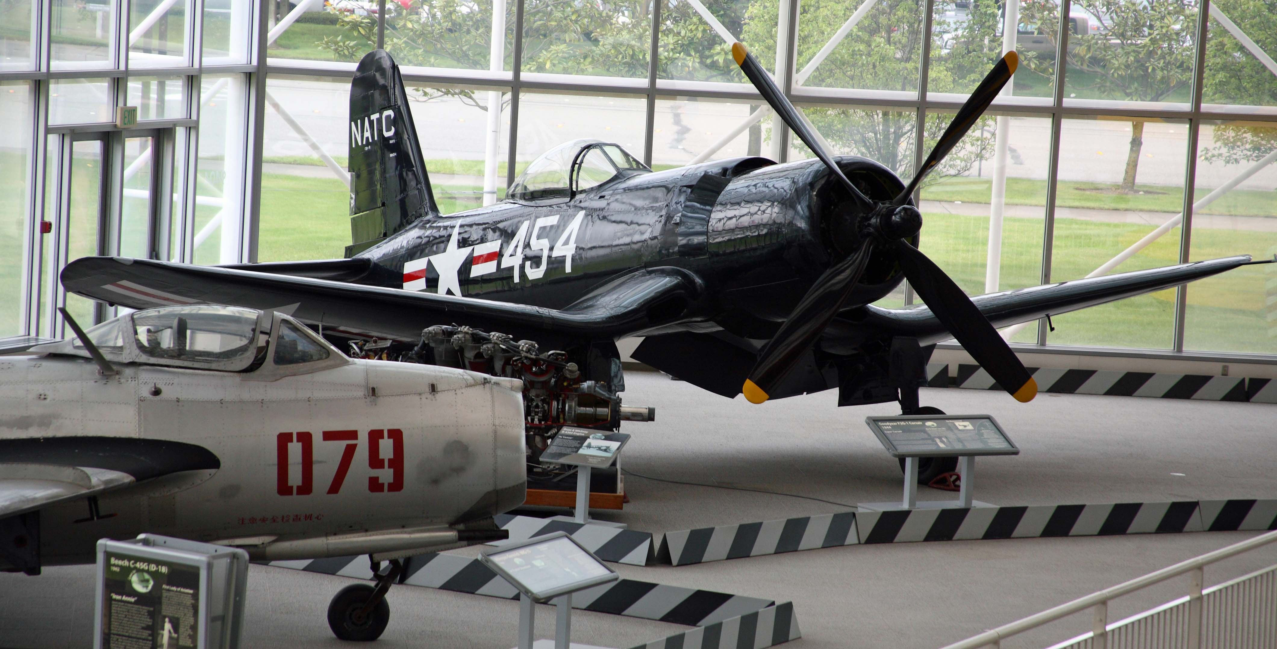 I had a chance to visit the Museum of Flight at Boeing Field in Seattle in May 2011 - it was my first visit in over 20 years. Great place to wander about; good collection of airplanes with a lot of aviation art and history. Definitely worth a visit!